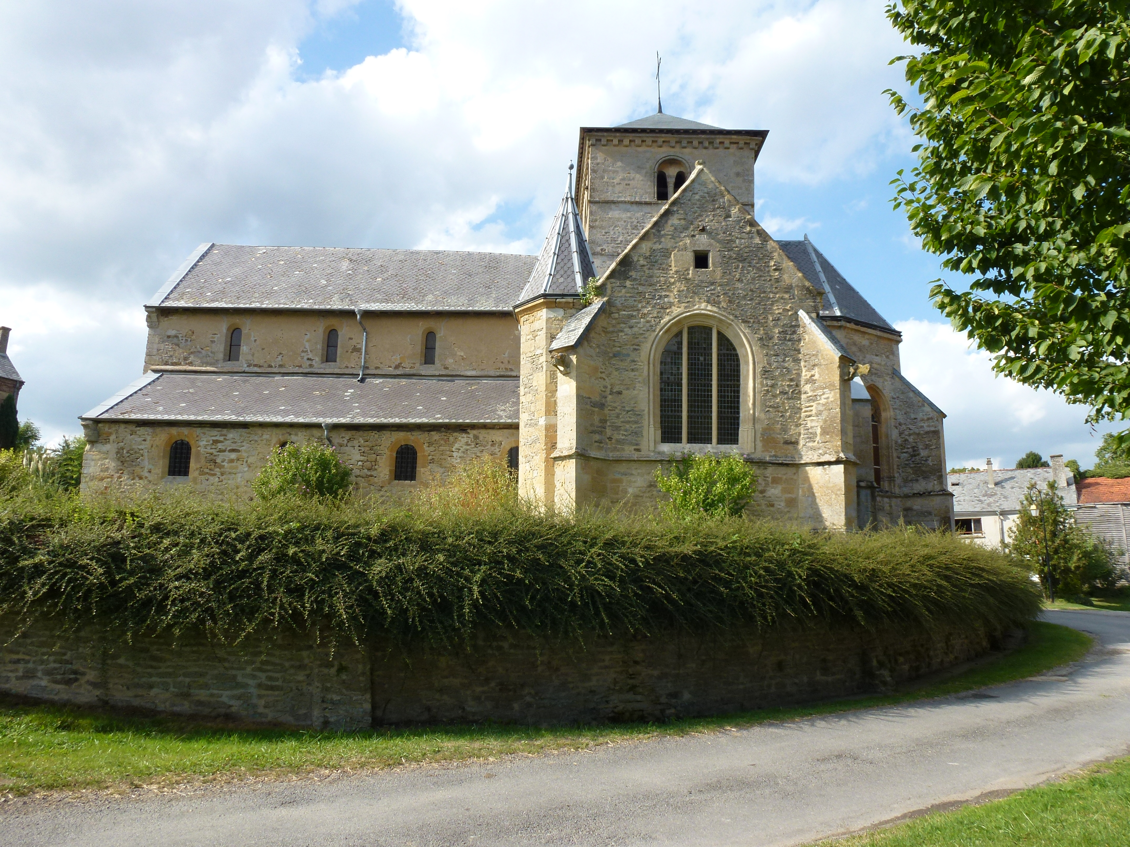 Sorcy-Bauthémont (Ardennes) église Notre-Dame, vue latérale